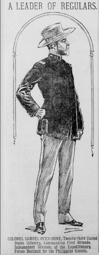 Colonel Samuel Ovenshine, Twenty-Third United States Infantry, Commanding First Brigade, Independent Division, of the Expeditionary Forces bound for the Philippine Islands.